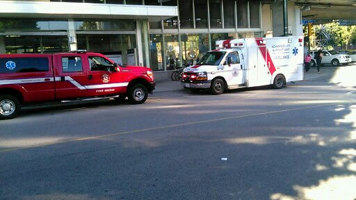 "medic 15 on scene with a medical aid call-aug2016.jpg